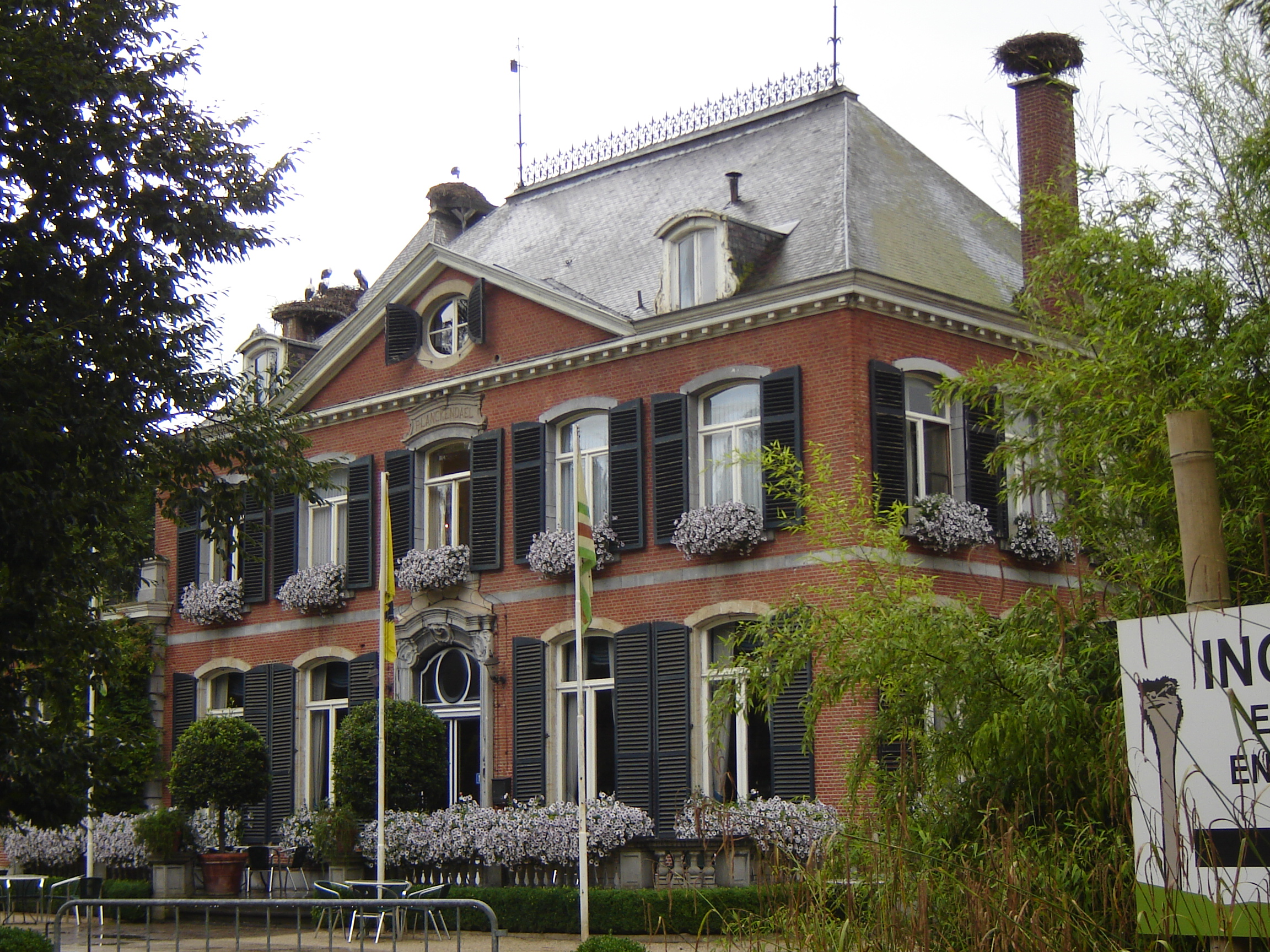 Castle at the (former) entrance of the Planckendael domain. Note the stork's nests on the roof. Muizen, Mechelen, Antwerp, Belgium